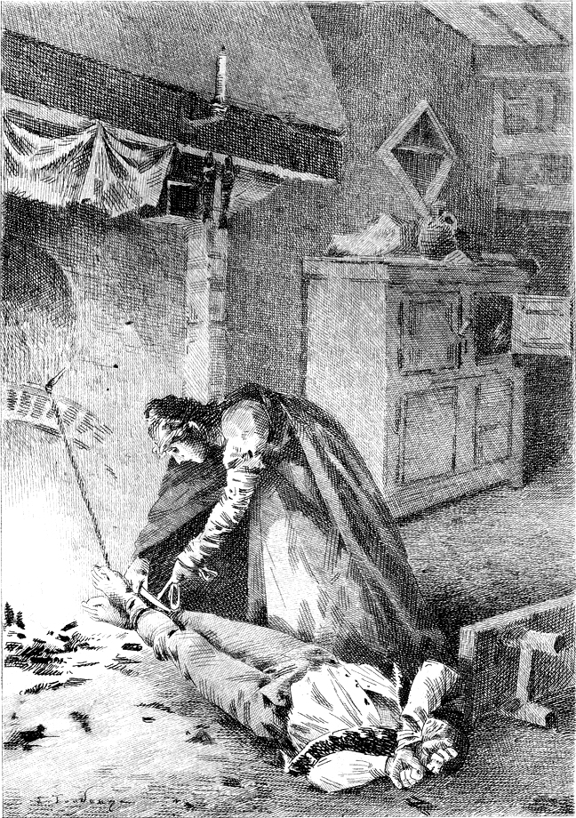 Illustration of Honoré de Balzac's The Chouans (1829).